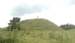 Norman Motte, Granard, 13th/14th Century